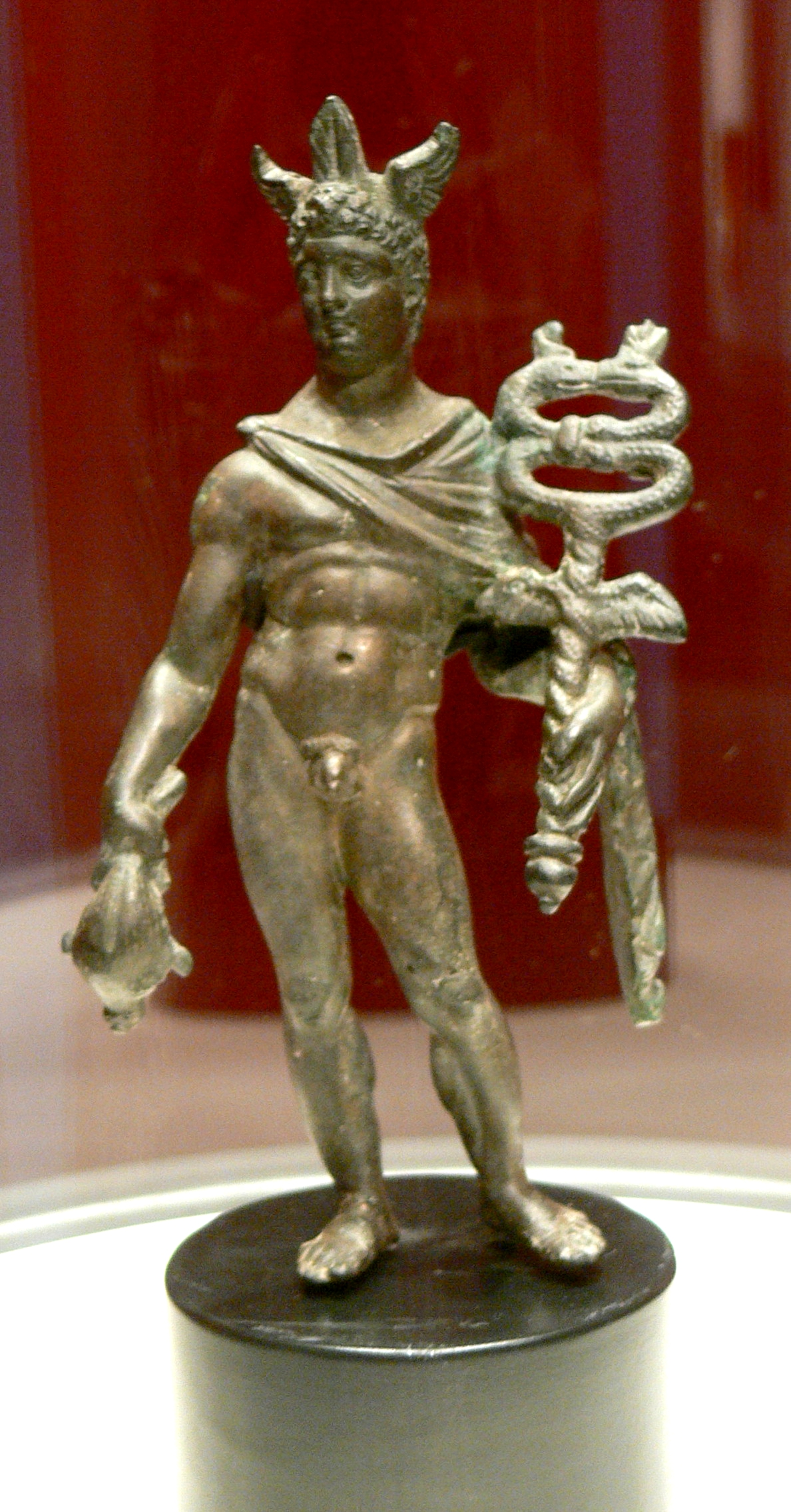 Archaeological museum Gunzenhausen ( Bavaria ). Bronze statue of god Mercurius.